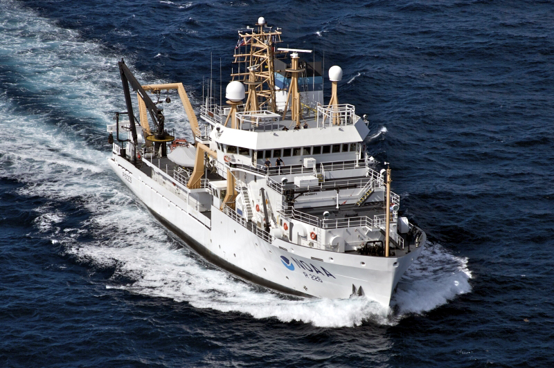 The National Oceanic and Atmospheric Administration fisheries and oceanographic research ship NOAAS Pisces (R 226)